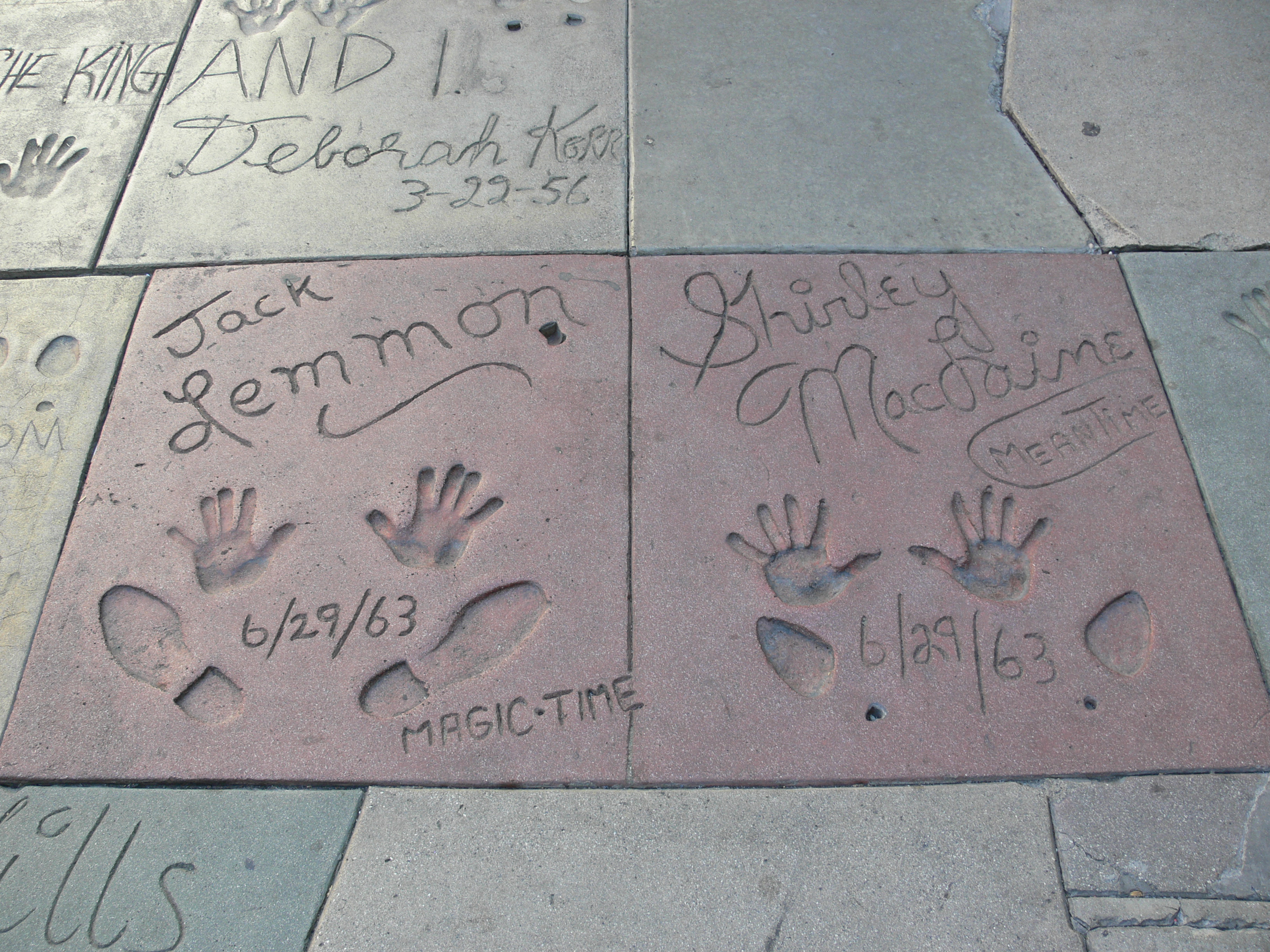 Courtyard of Grauman's Chinese Theatre, Hollywood Boulevard, Los Angeles Jack Lemmon and Shirley MacLaine